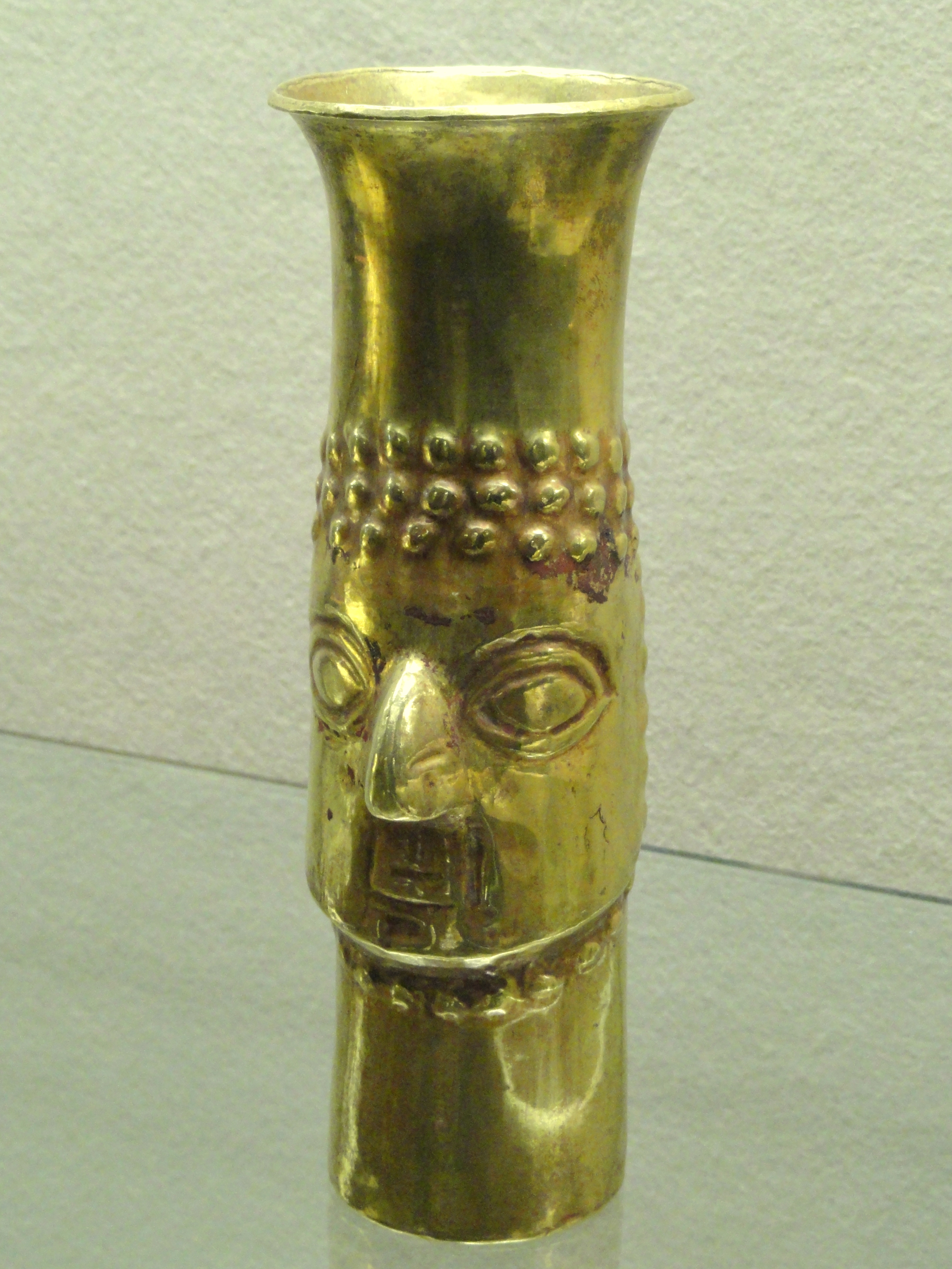 Exhibit from the Latin American collection of the Staatliches Museum für Völkerkunde München, Maximilianstraße 42, Munich, Germany. Gold beaker, Inca, 1450-1532 AD, southern Peru.